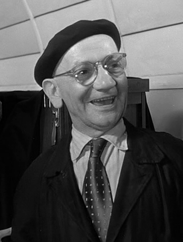 Anna Magnani and Arturo Bragaglia in Italian movie Bellissima from 1951